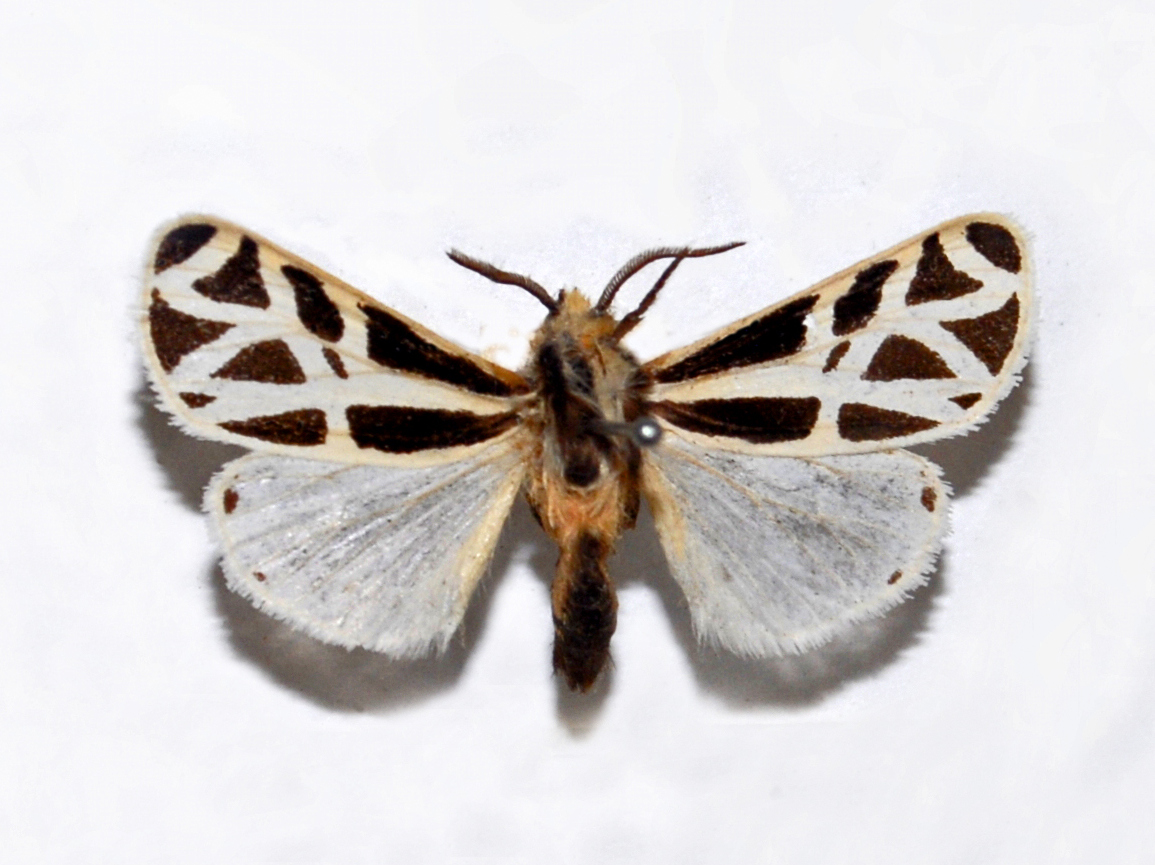 Notarctia proxima. Mounted specimen on display at the Civico Museo di Storia Naturale di Trieste